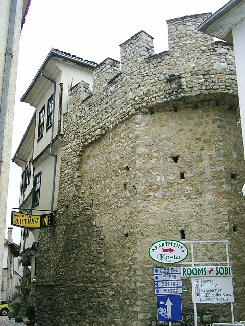 The town of Ohrid, Republic of Macedonia